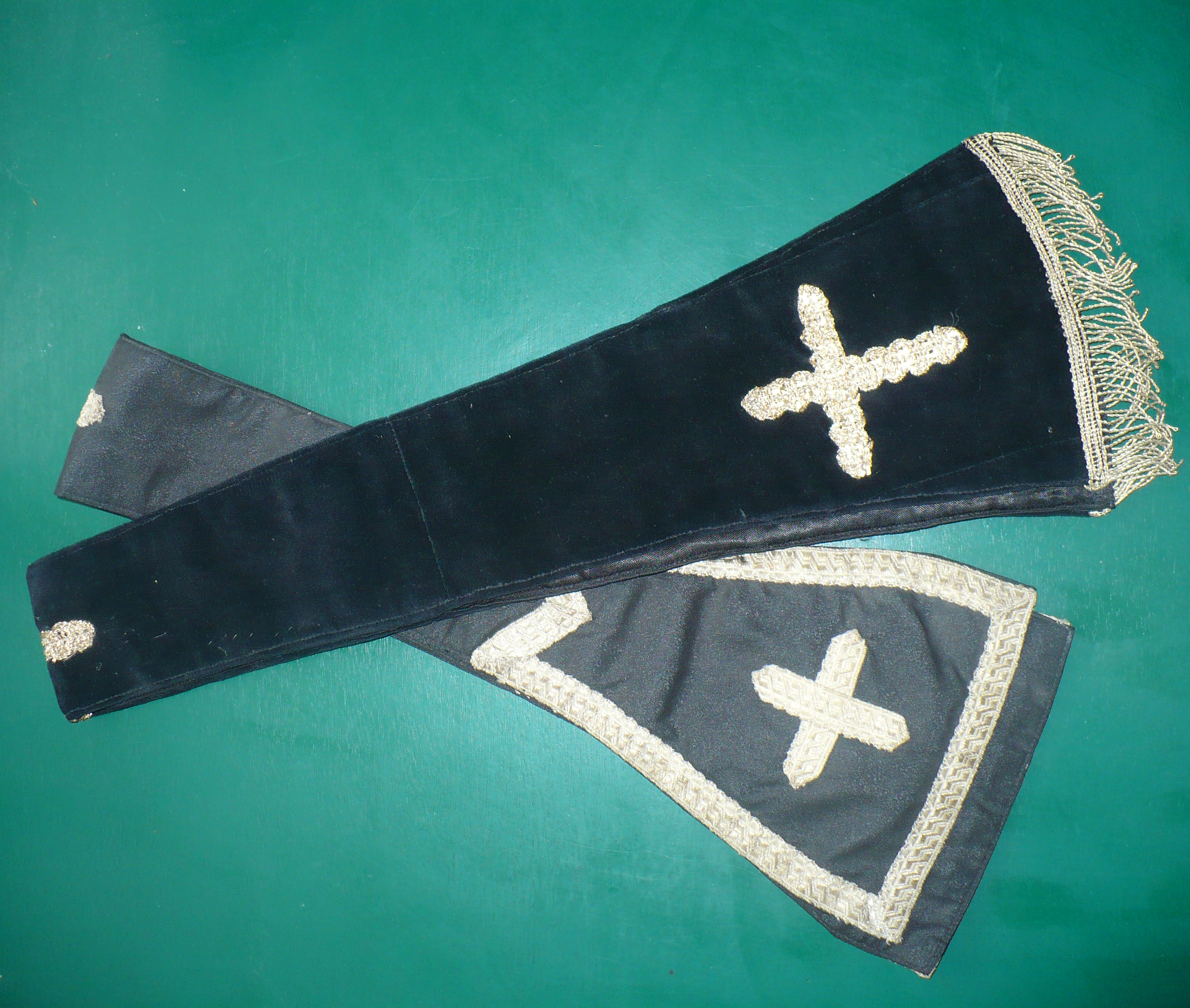 Two black maniples.